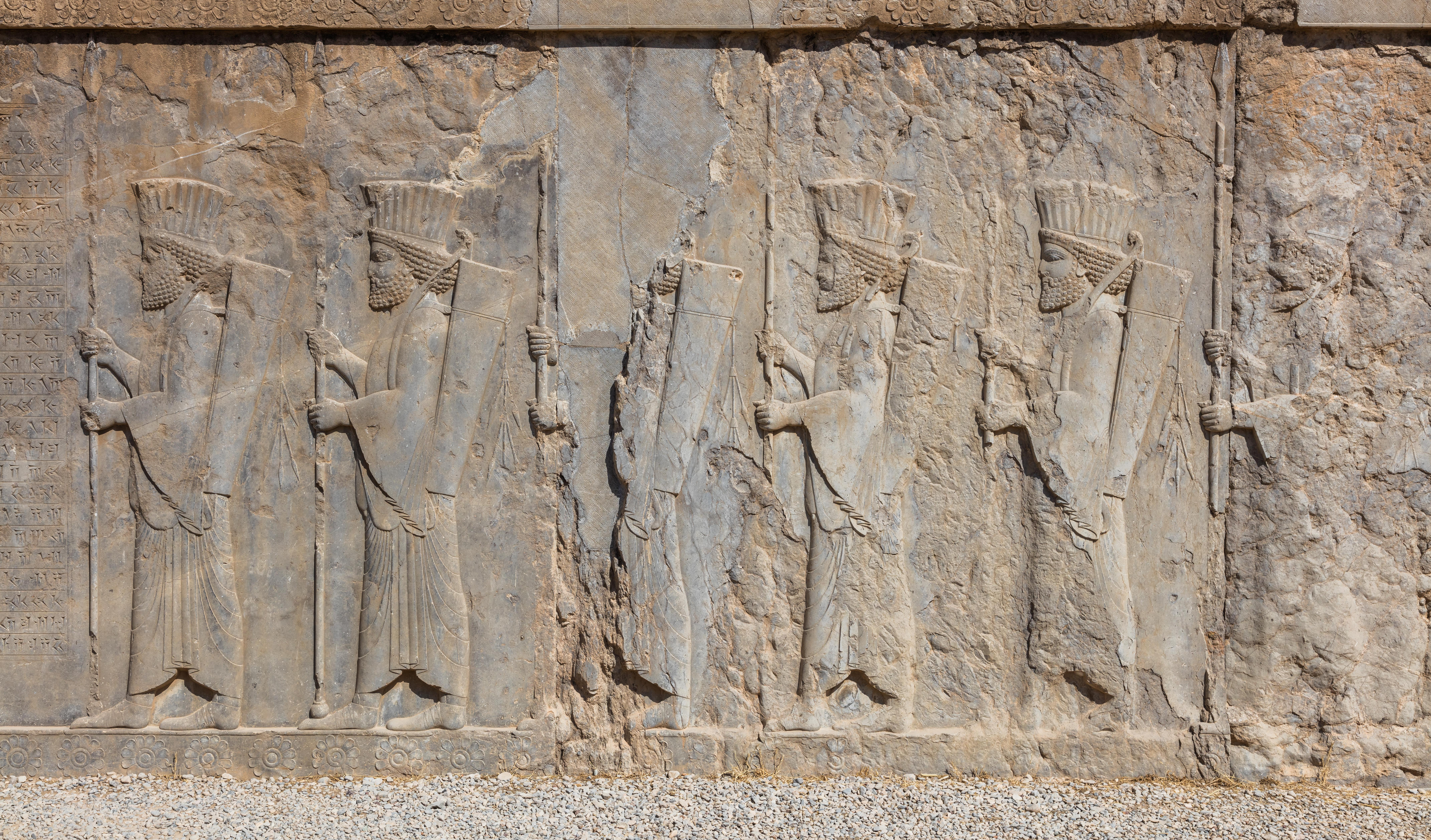 Persepolis, Iran